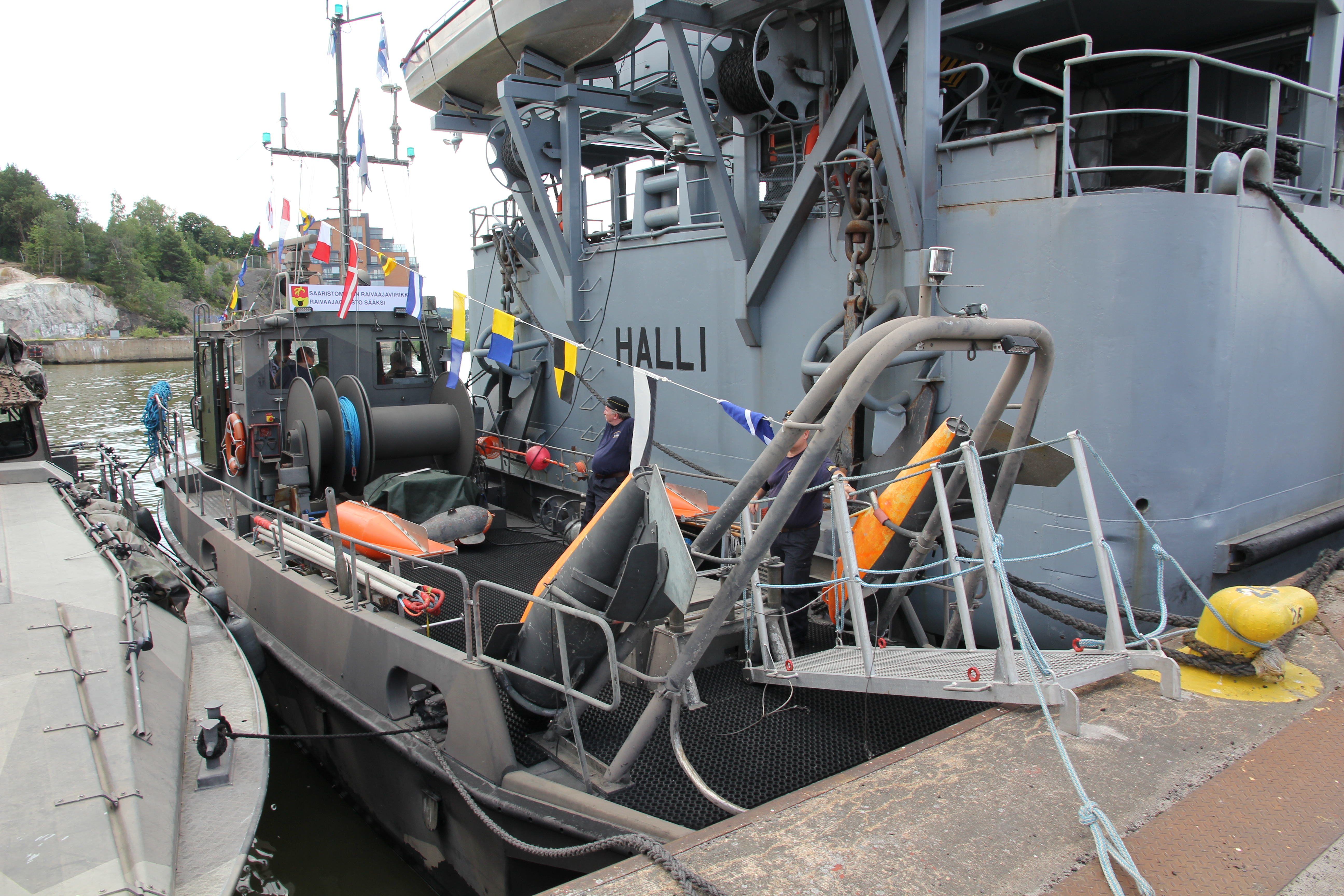 Minesweeper Kiiski 7 in Aura river in Turku during Finnish Navy 2014 anniversary.